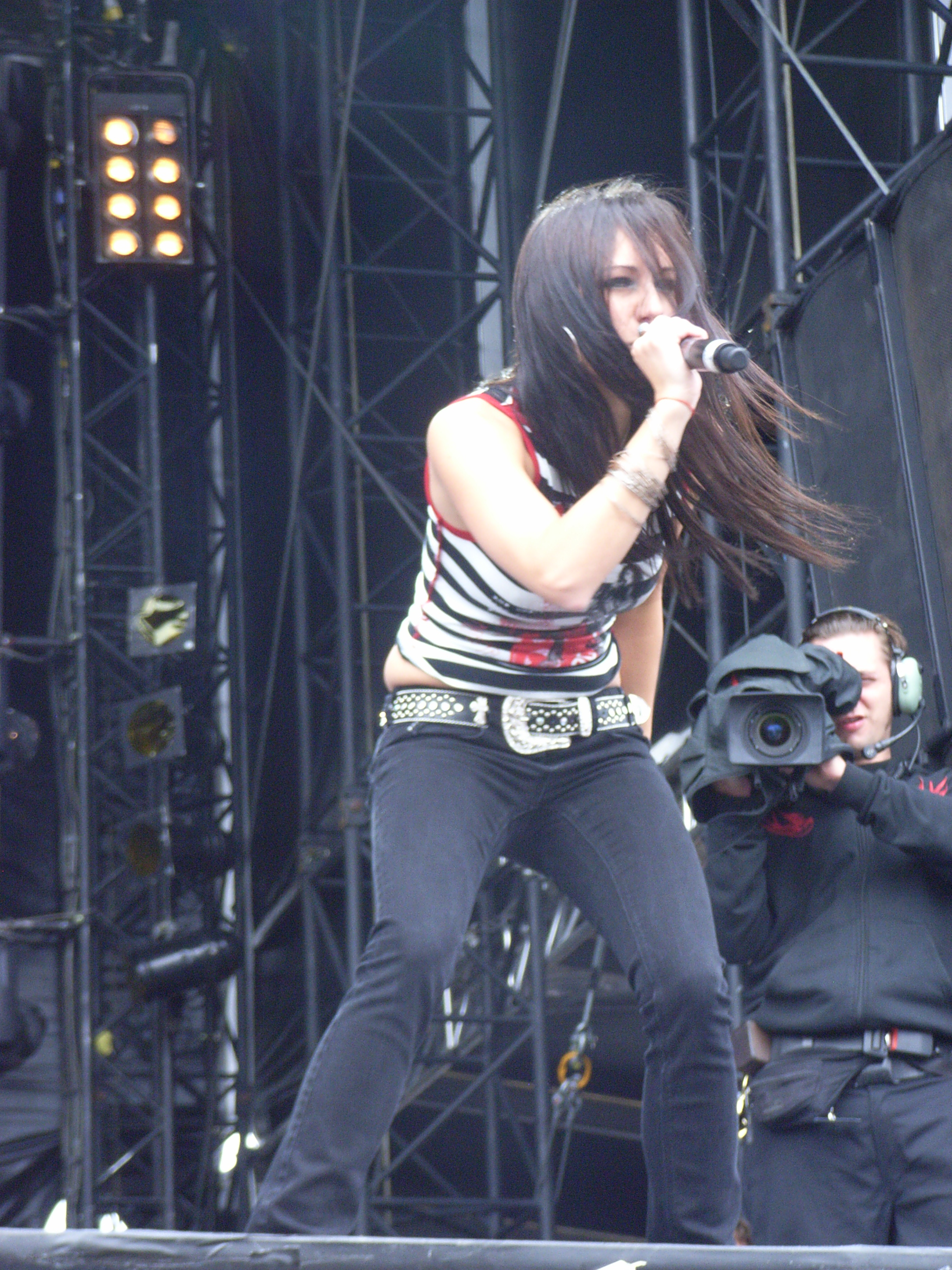 Lauren Harris at Graspop 2007